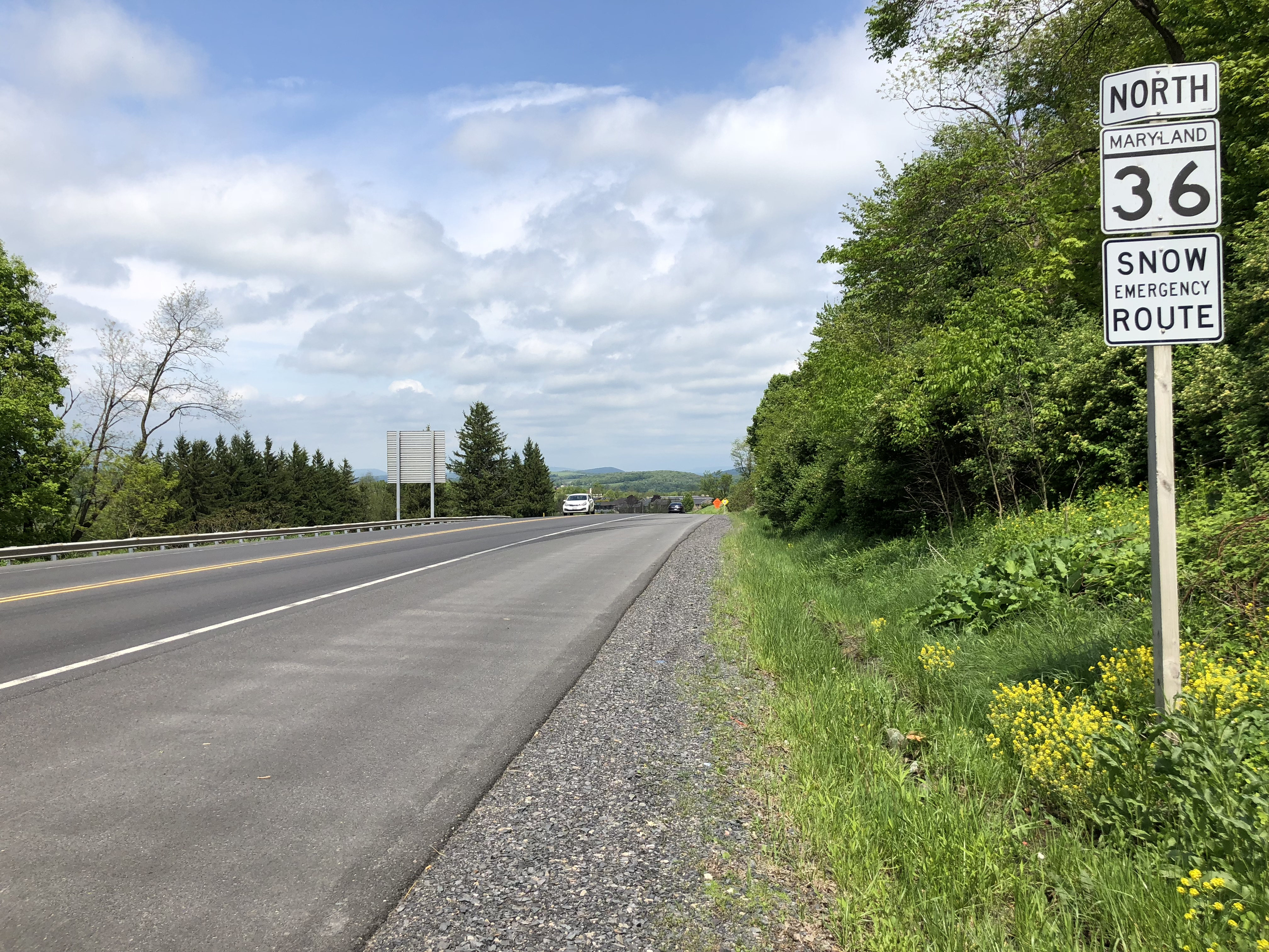 View north along Maryland State Route 36 (New Georges Creek Road) just north of Hoffman Hollow Road and Cherry Lane in Frostburg, Allegany County, Maryland